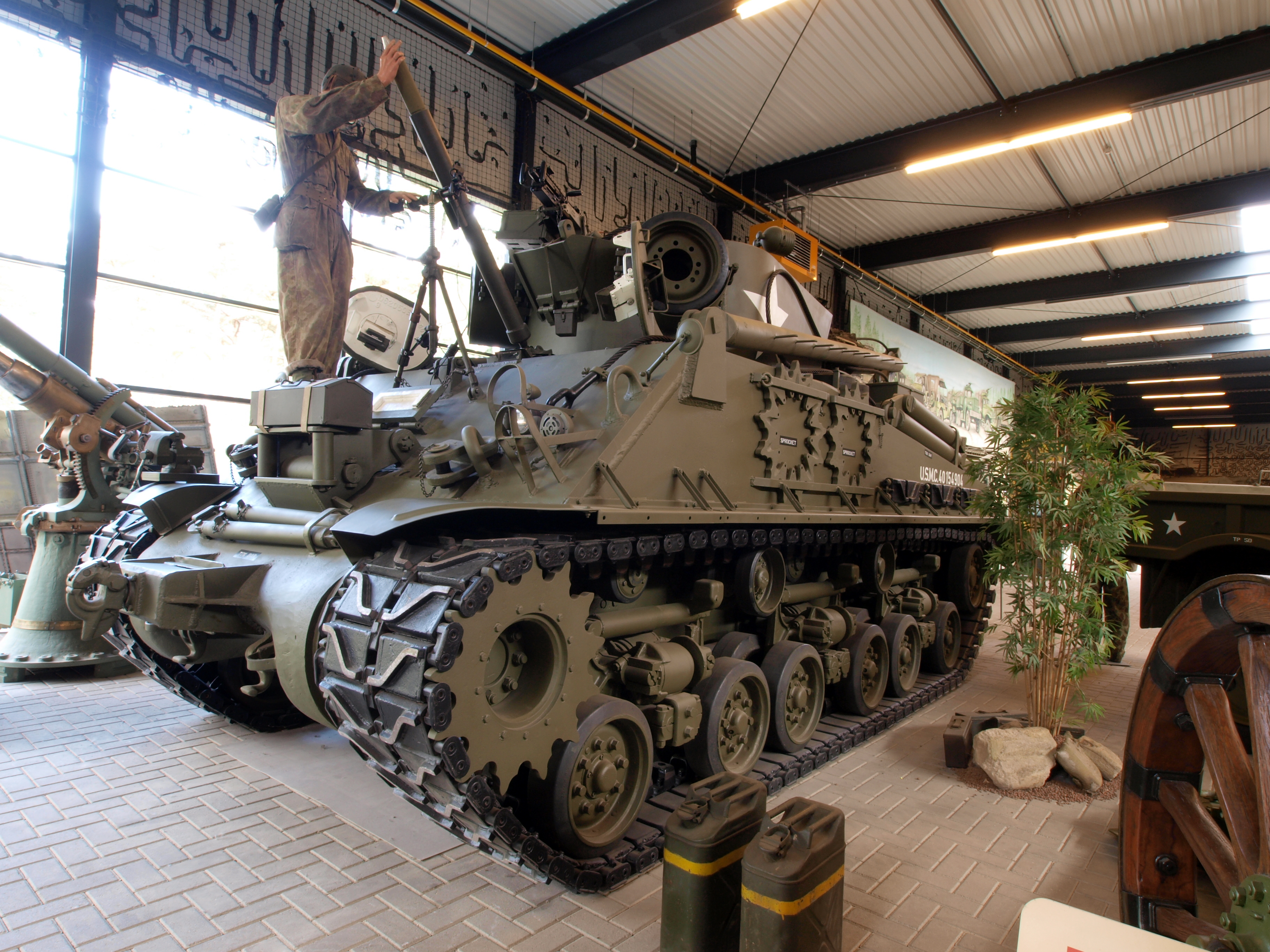 Photographed at the Marshallmuseum - Liberty Park - Oorlogsmuseum Overloon, The Netherlands.